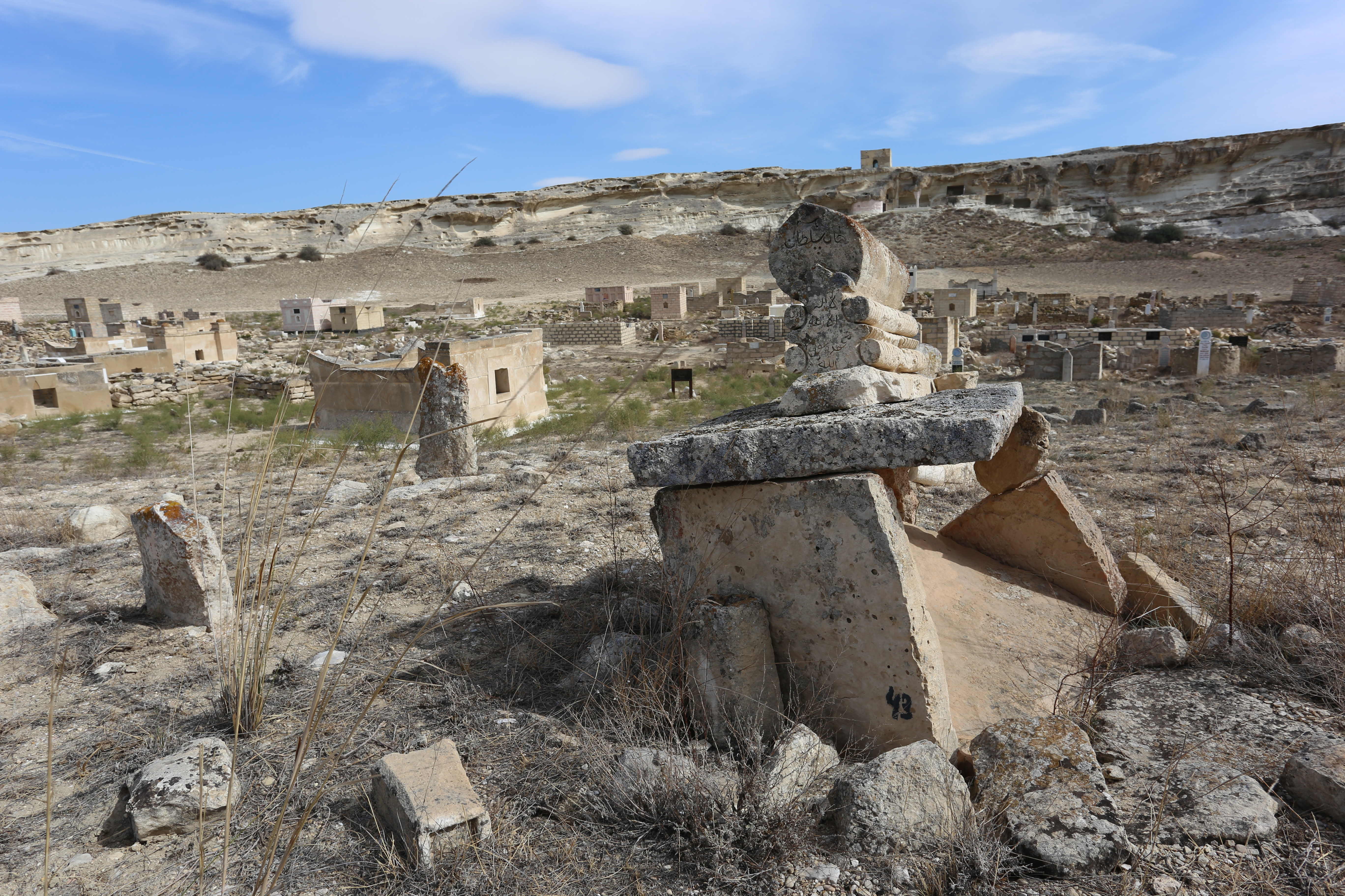 Shakpak-Ata Mosque